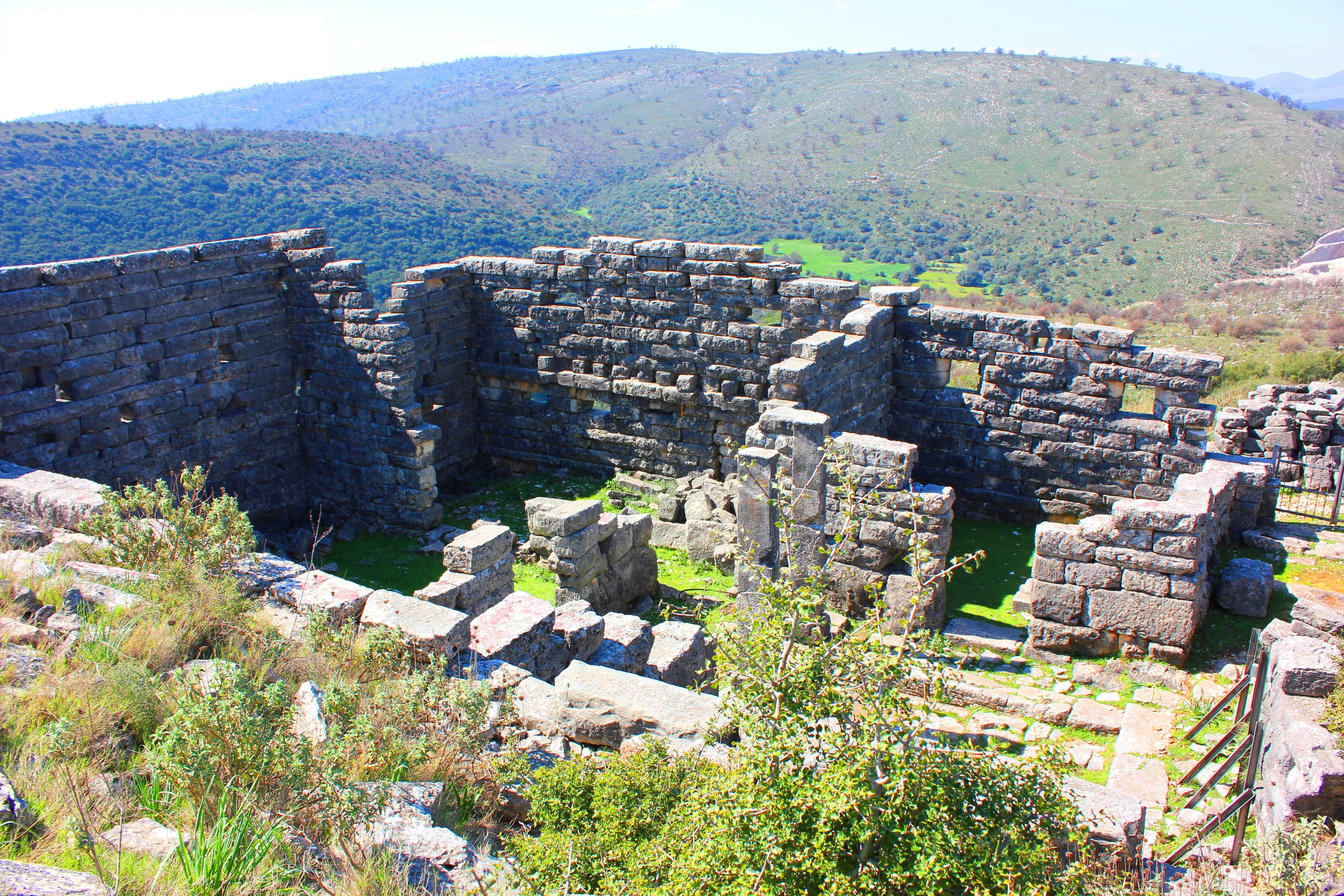 Orraon palace